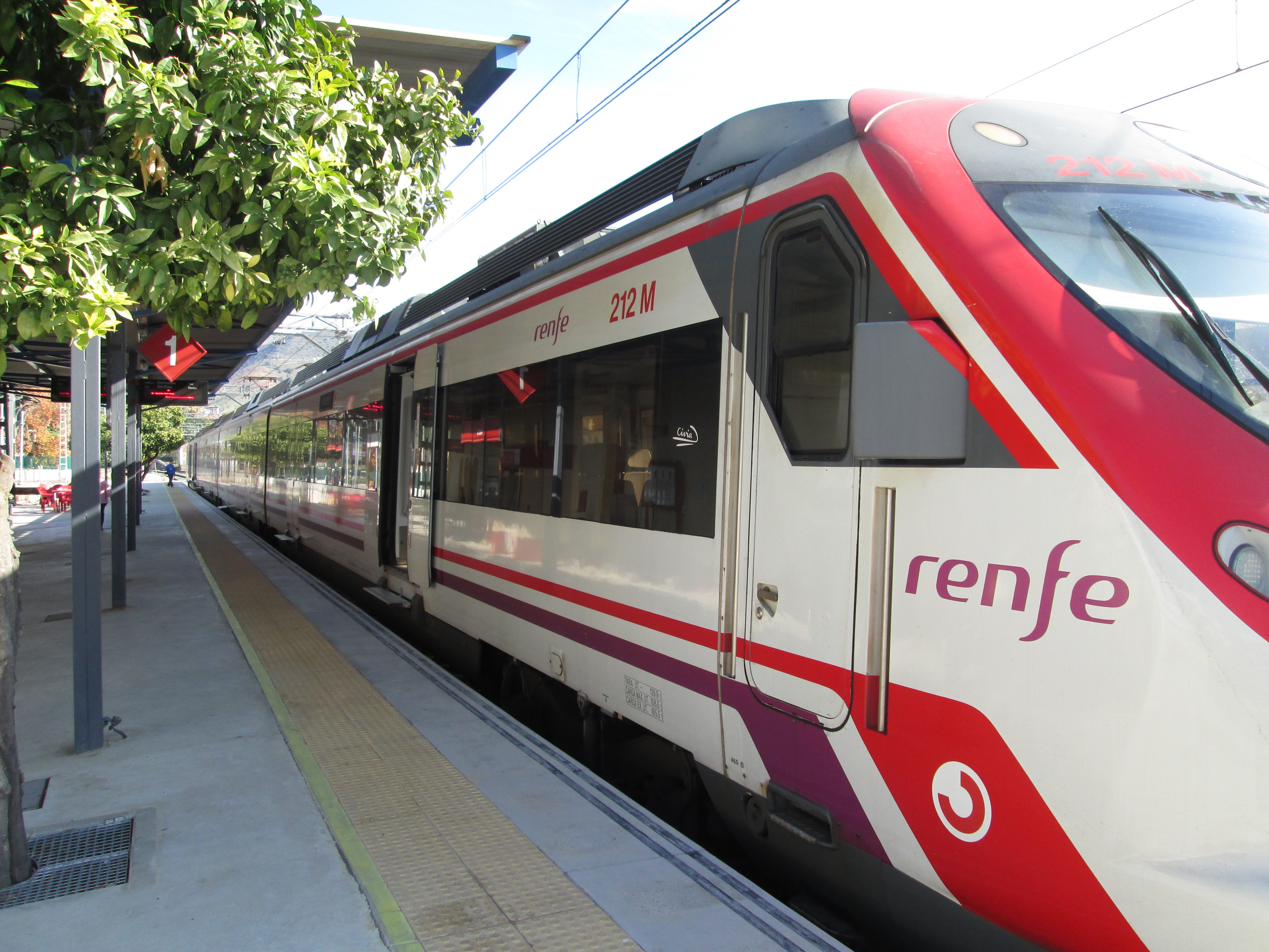 Álora